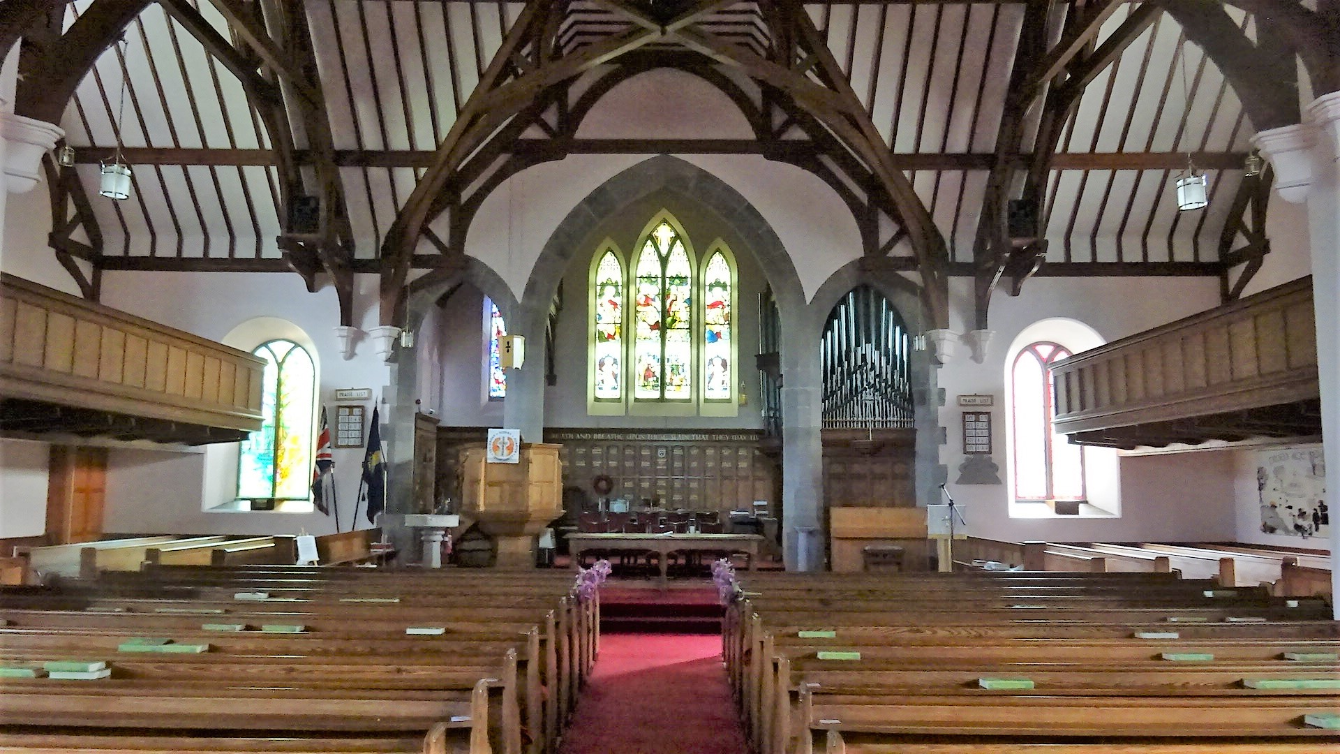 Dunnottar Church interior, Stonehaven, Aberdeenshire. View towards the altar.